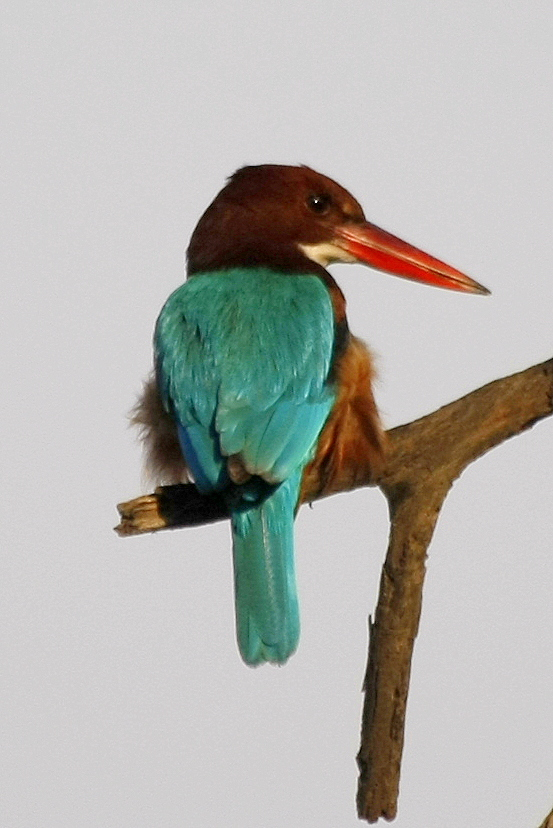 White Breasted Kingfisher